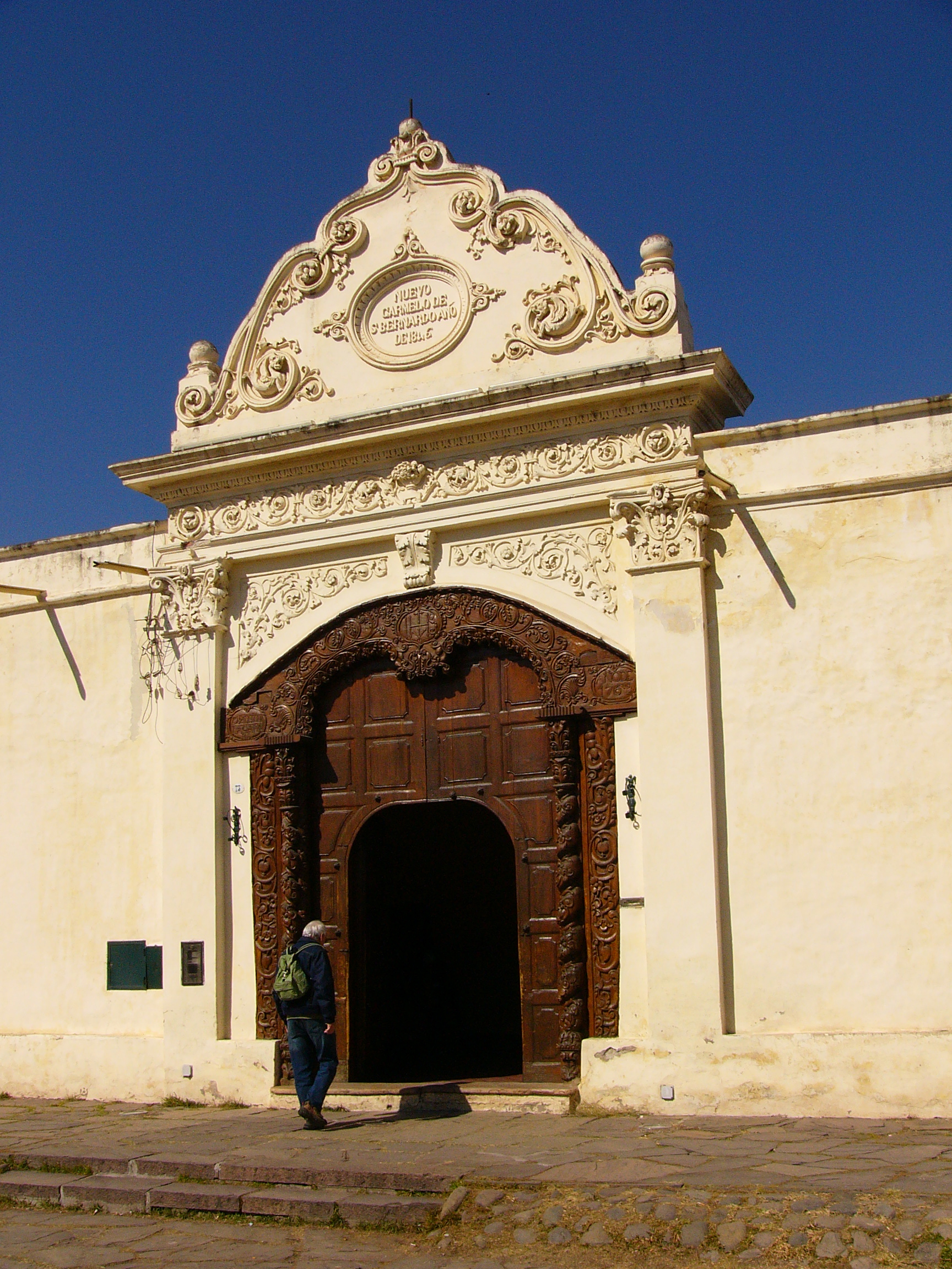 San Bernardo Convent in Salta, Argentina